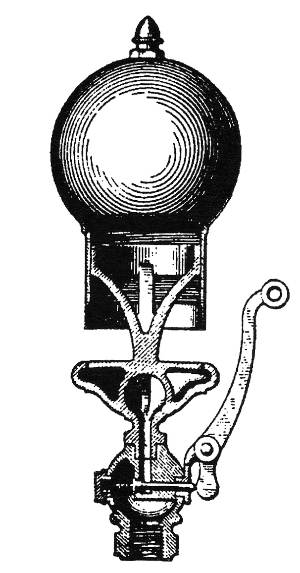 American Machinist, November 10, 1892.